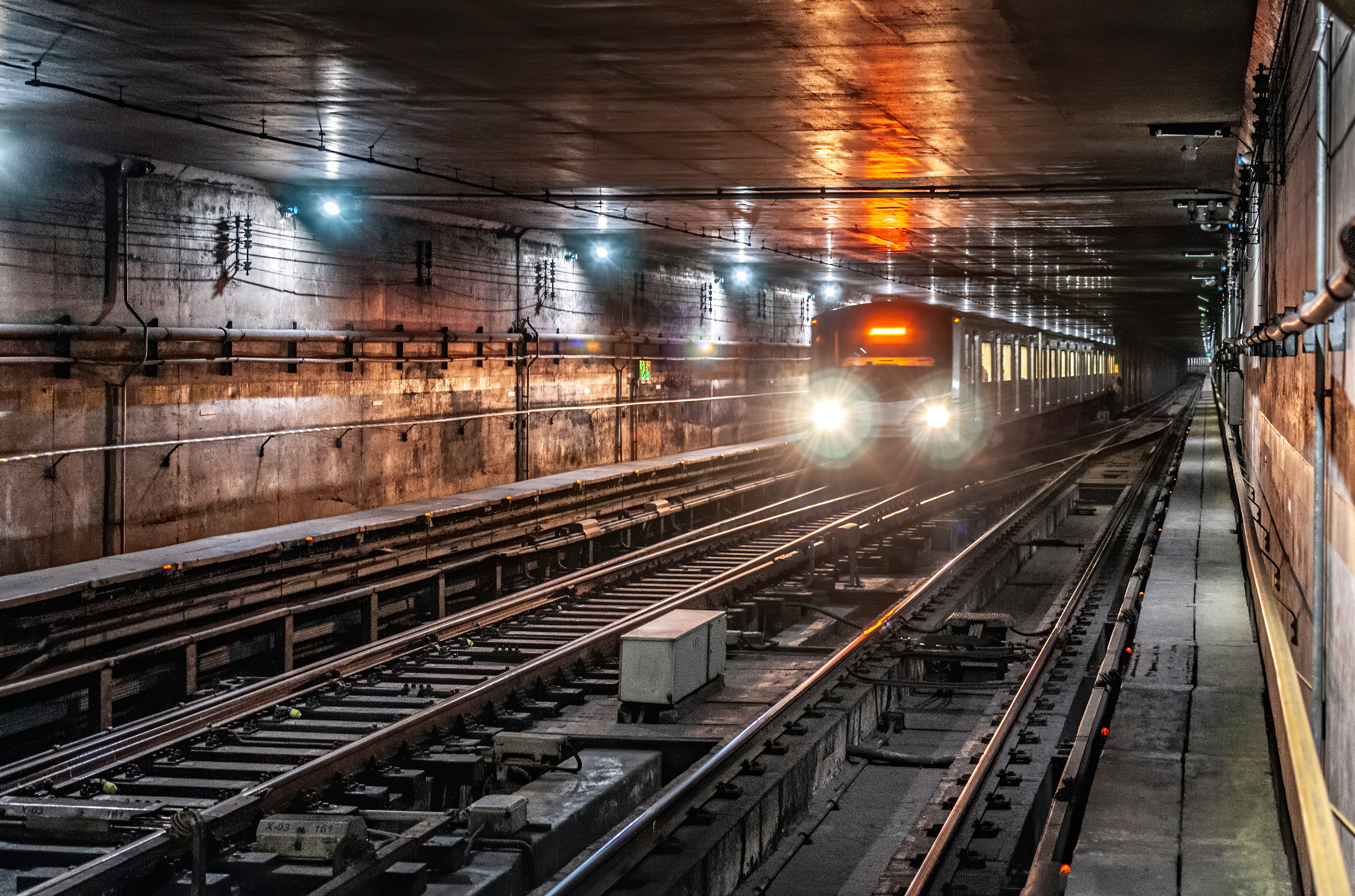 Metro de São Paulo, southbound train arriving at Saúde Station, Brazil